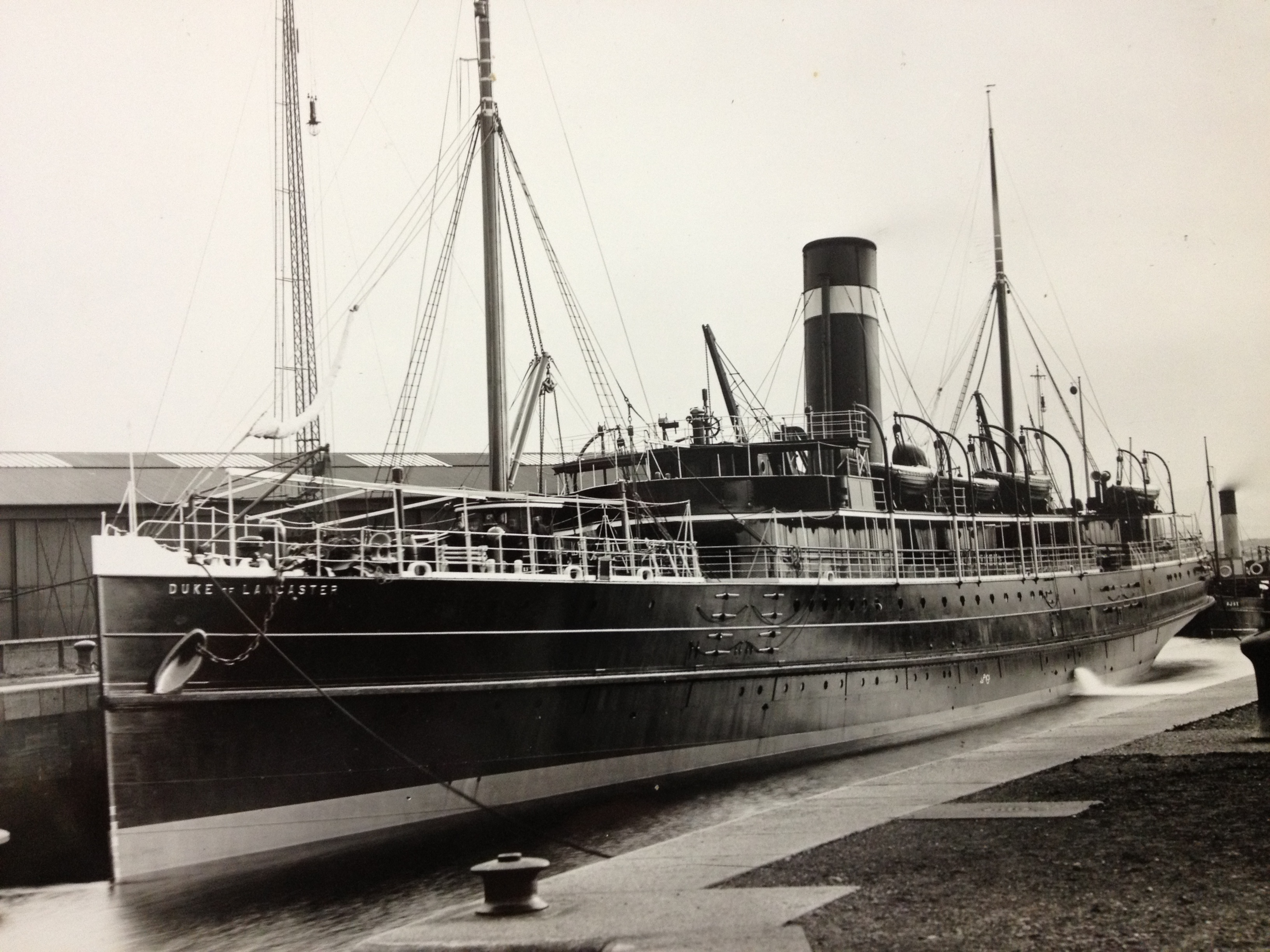 SS The Ramsey in previous service as SS Duke of Lancaster in London & North Western Railway service.